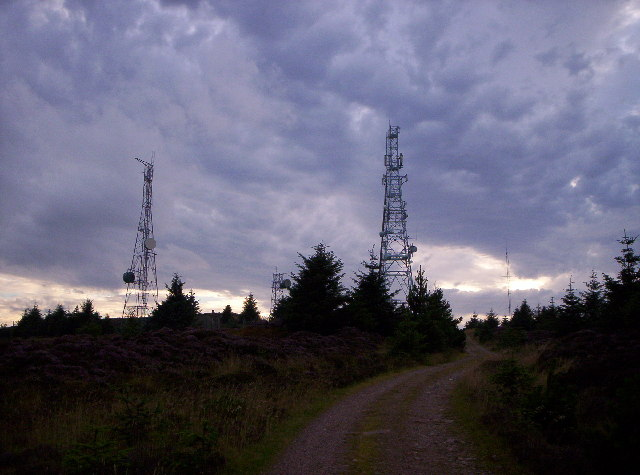 SSE Telecommunications Mast - Cairn Mon Earn. Taken From Approach Road